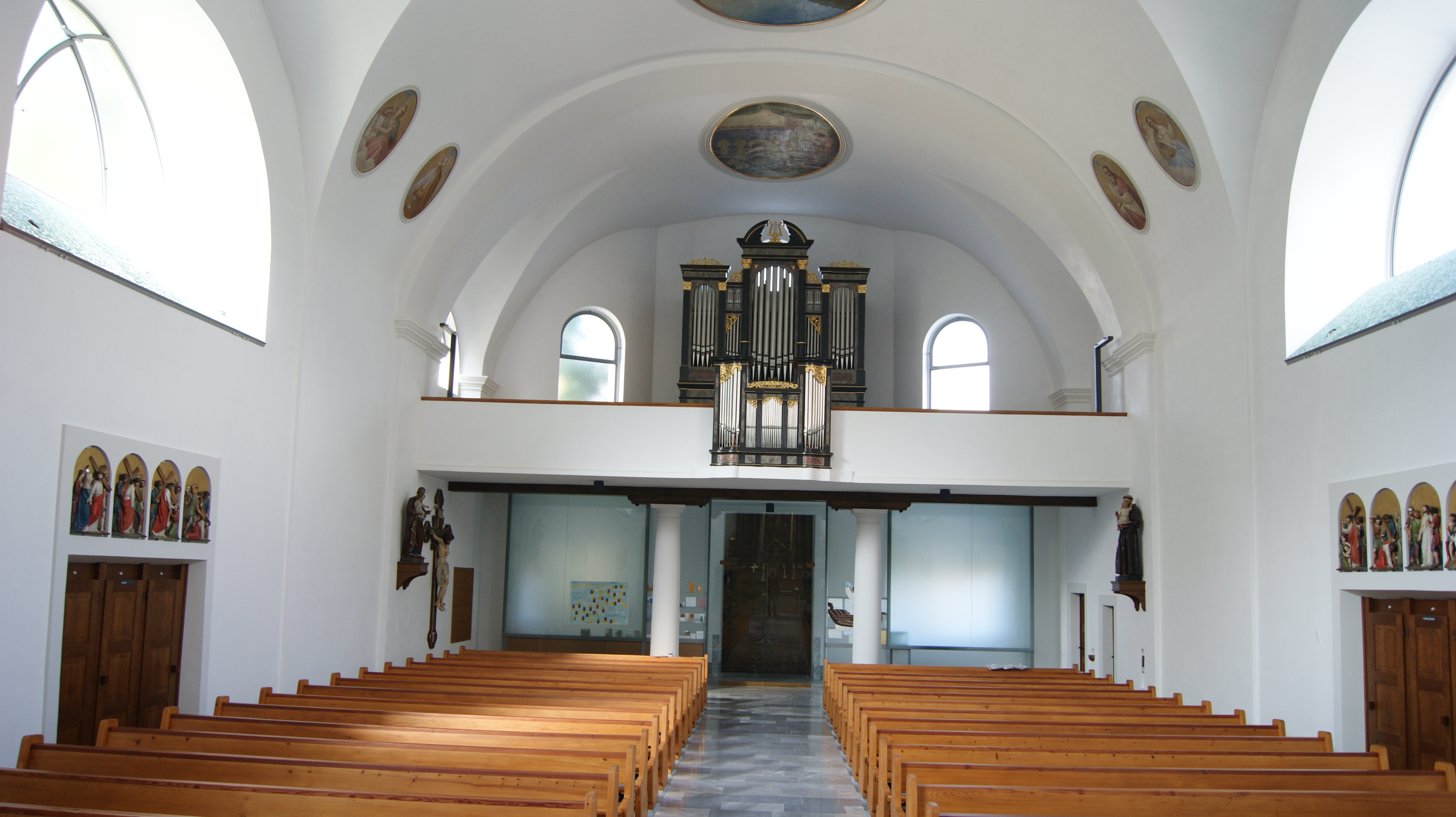 Parish church of St. Sebastian in the district of Oberdorf in Dornbirn, Vorarlberg, Austria. View to the Empre and the Organ.